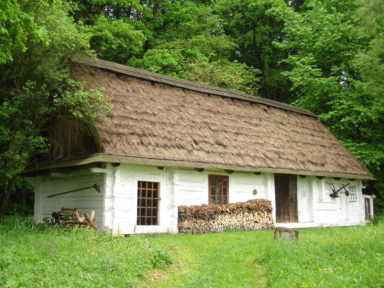 a hut from Nadolany about 1892, object exists in a Sanok-Skansen